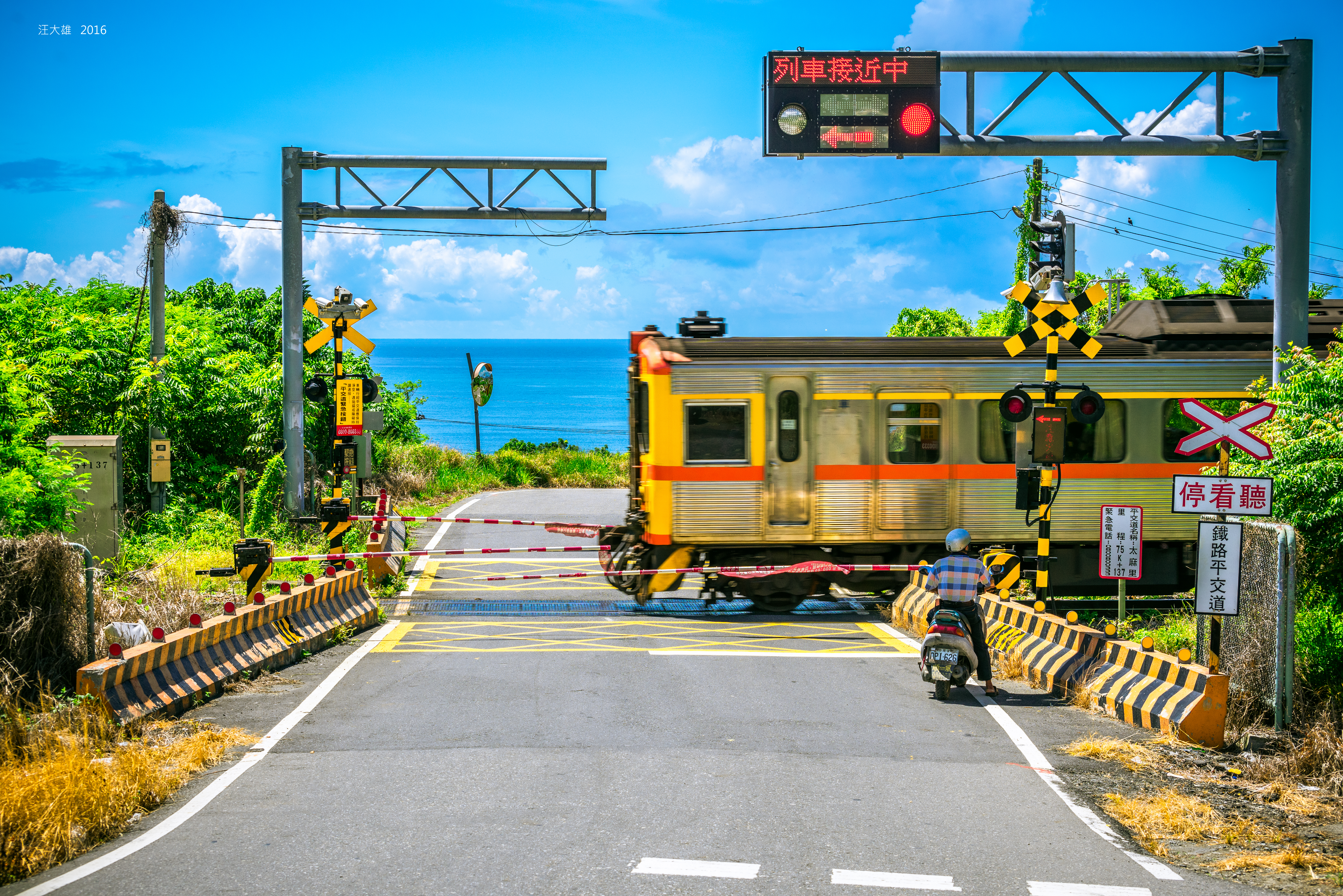 Taimali Level Crossing, Taimali Township, Taitung County.